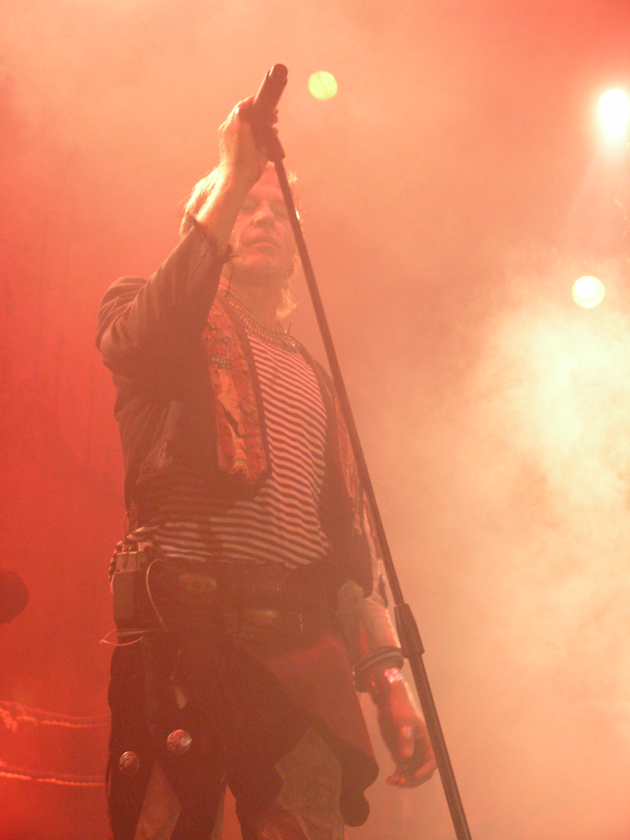 Michael Robert Rhein from In Extremo during Masters of Rock 2007 festival